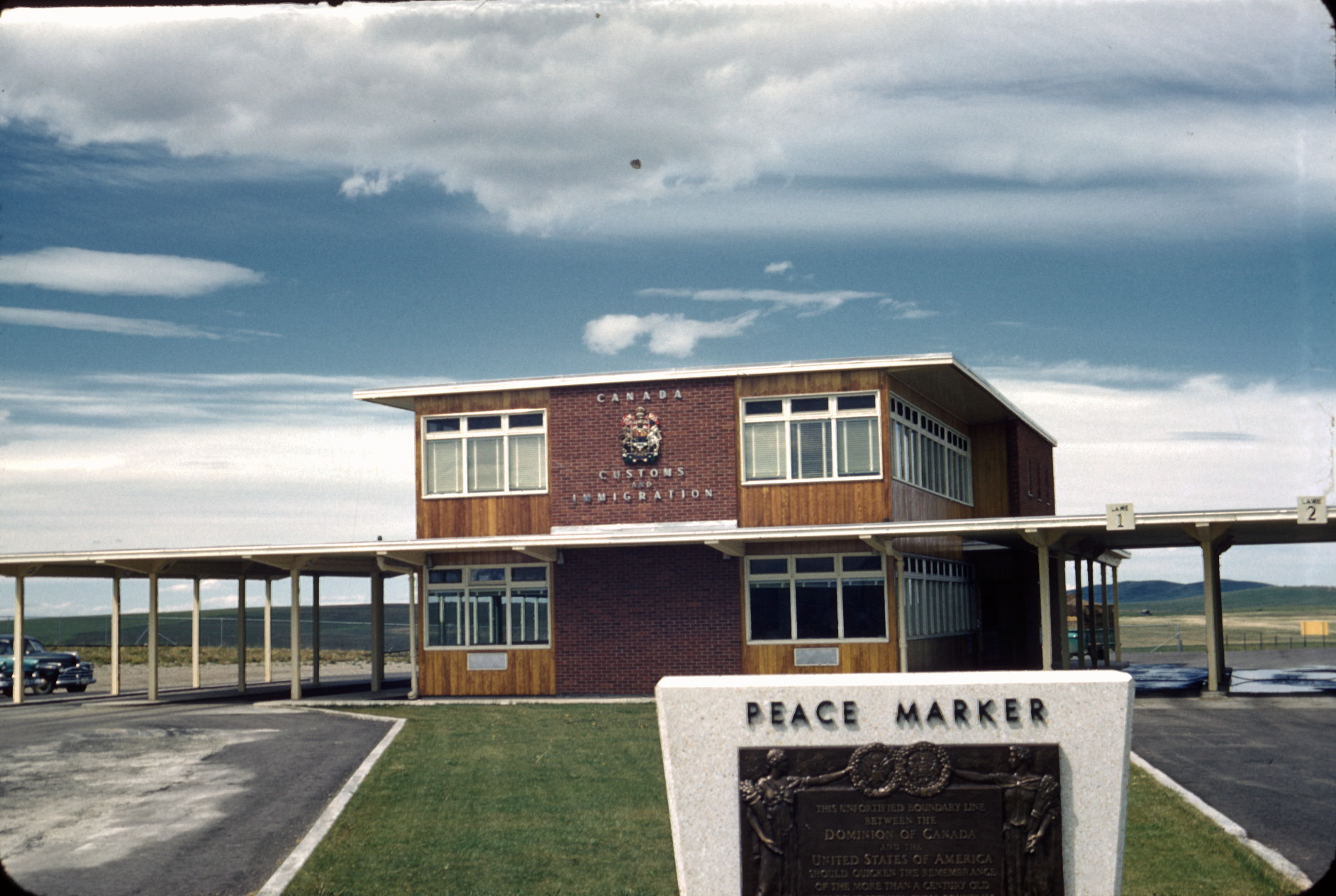 The Canadian border station at Carway, Alberta, as seen in 1959.